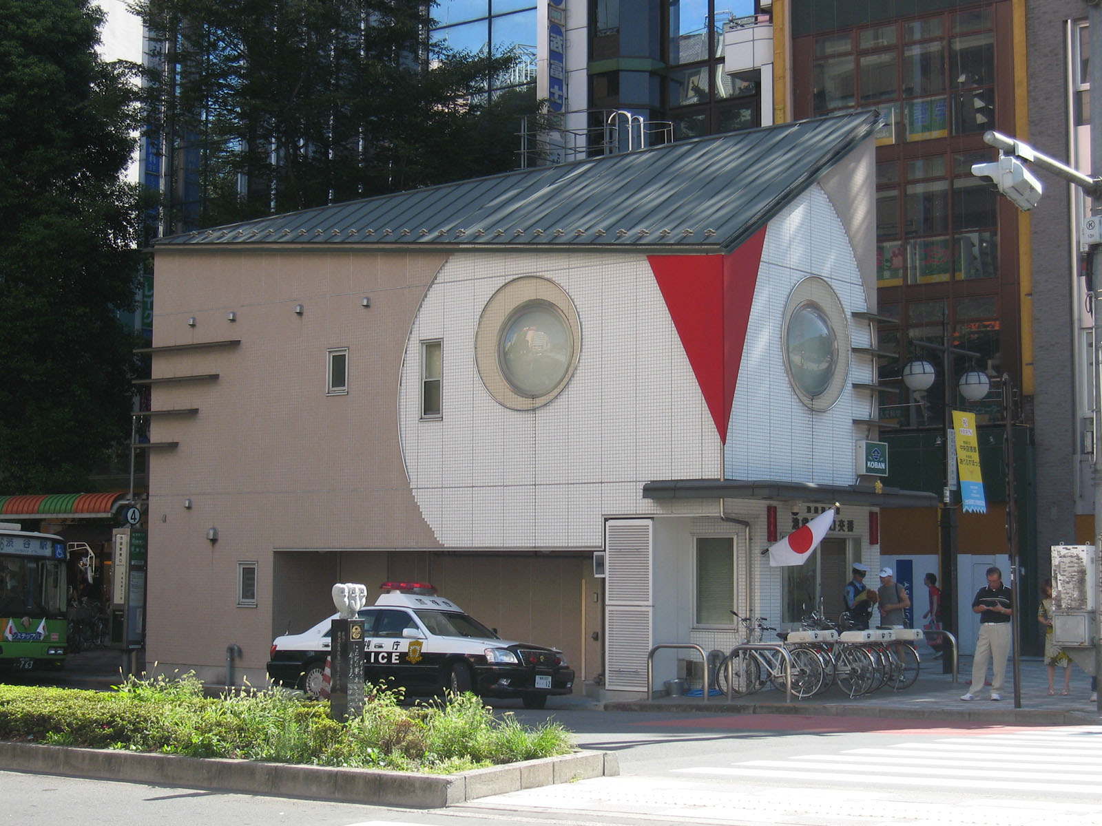 "Fukurou Koban", the koban at the east entrance to Ikebukuro Station in Minami Ikebukuro, Toshima, Tokyo. Picture taken 2007-09-17 by Dddeco